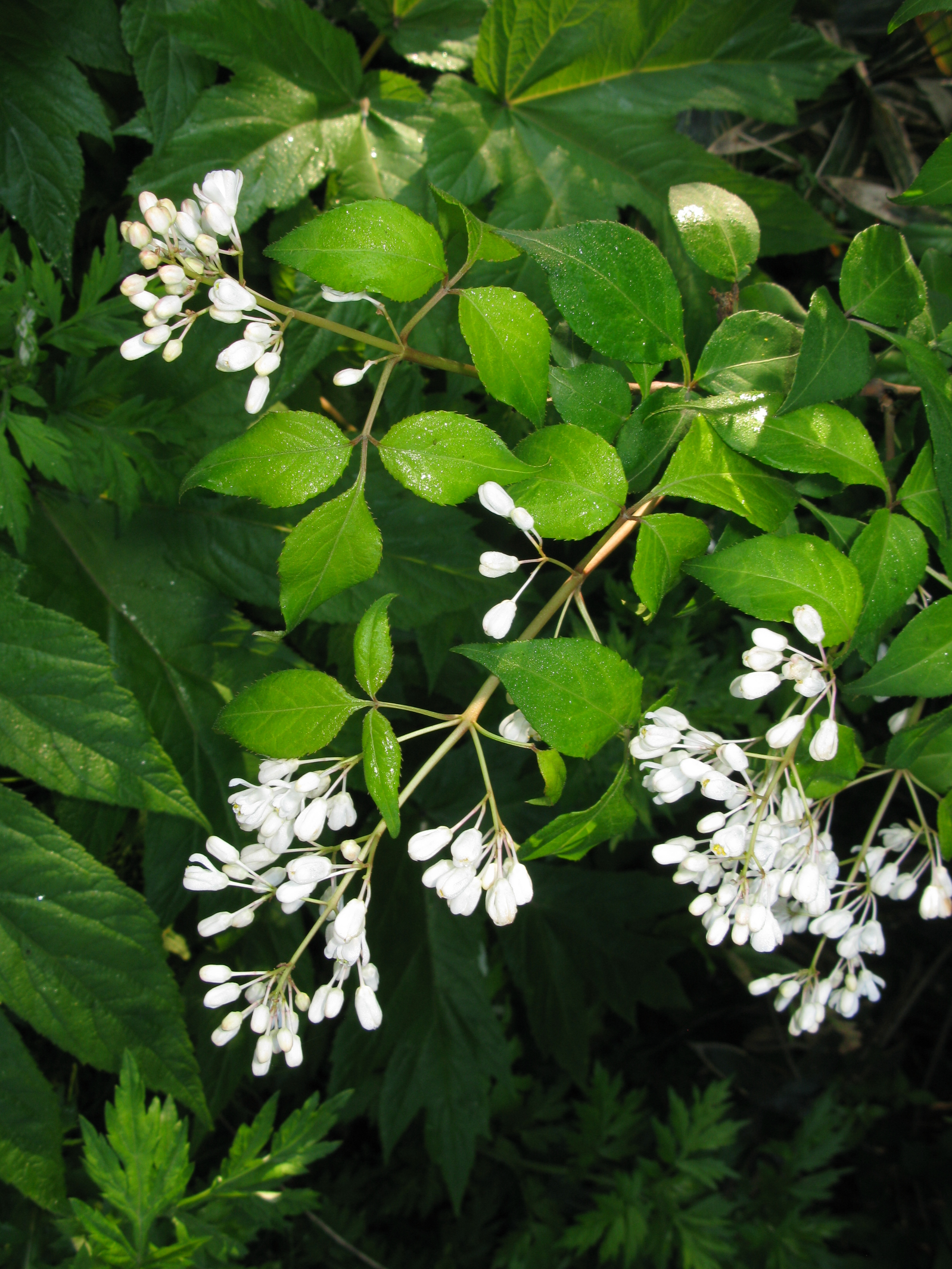 Staphylea bumalda, Aizu area, Fukushima pref., Japan